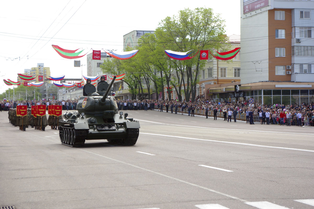 The ceremonial events devoted to the 72nd anniversary of the Great Victory in Tiraspol.